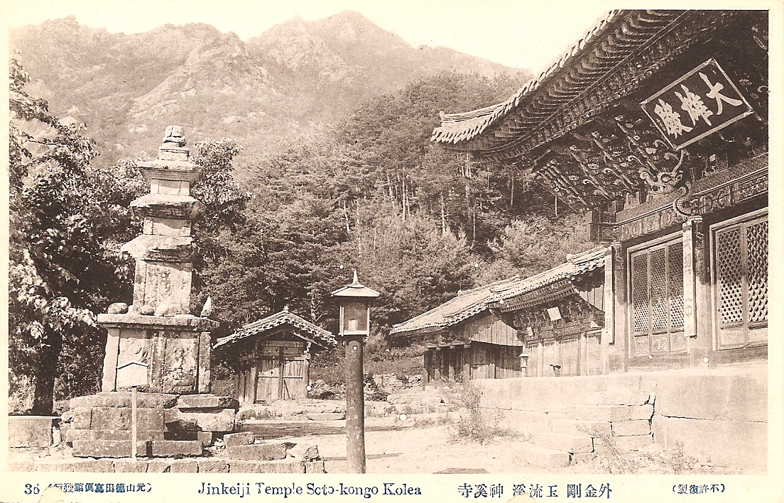 Shinkei-ji (Singyesa), Outer Diamond Mountains, Korea